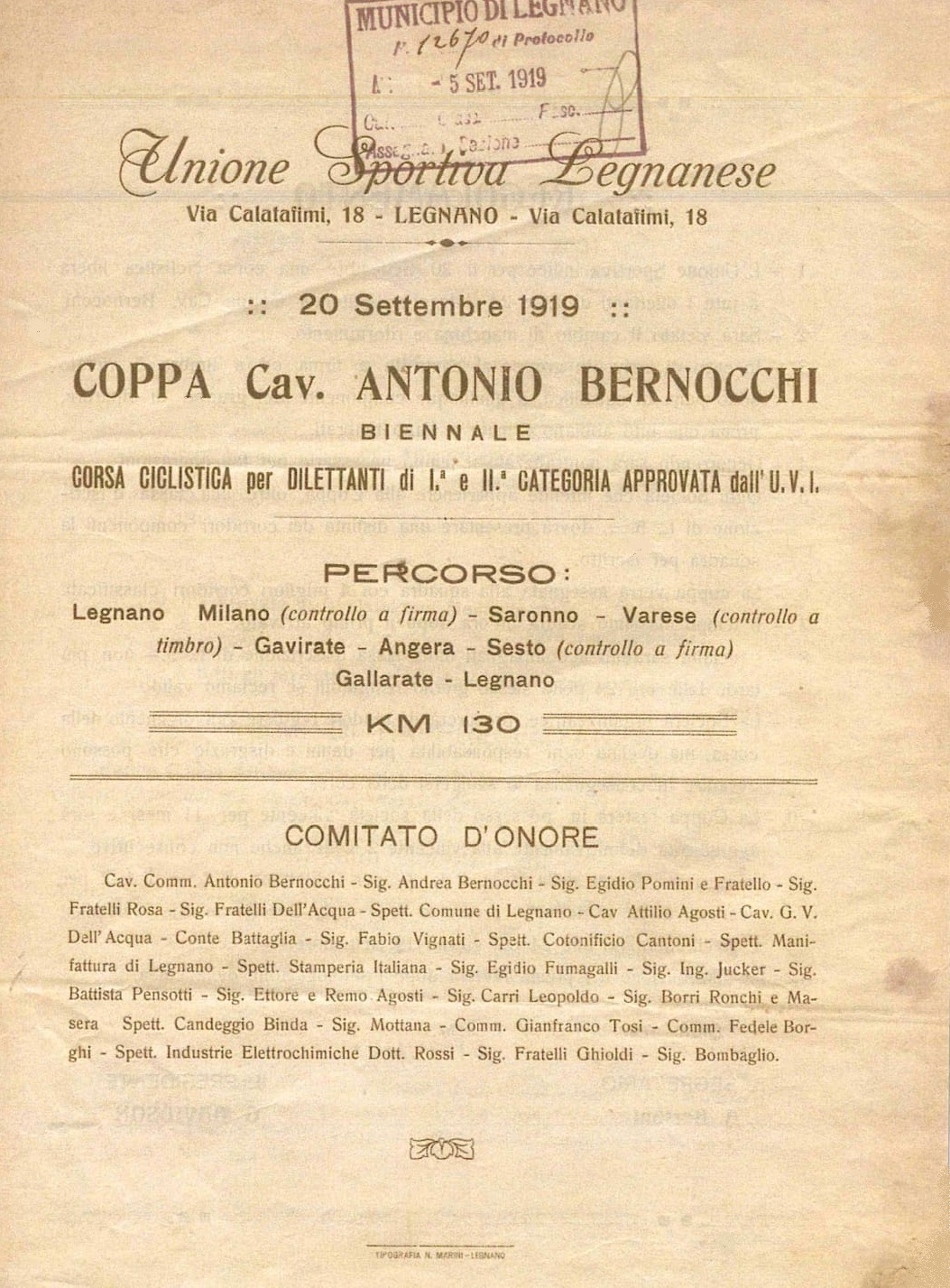 Official First document of COPPA BERNOCCHI, cycling road race held in Italy since 1919